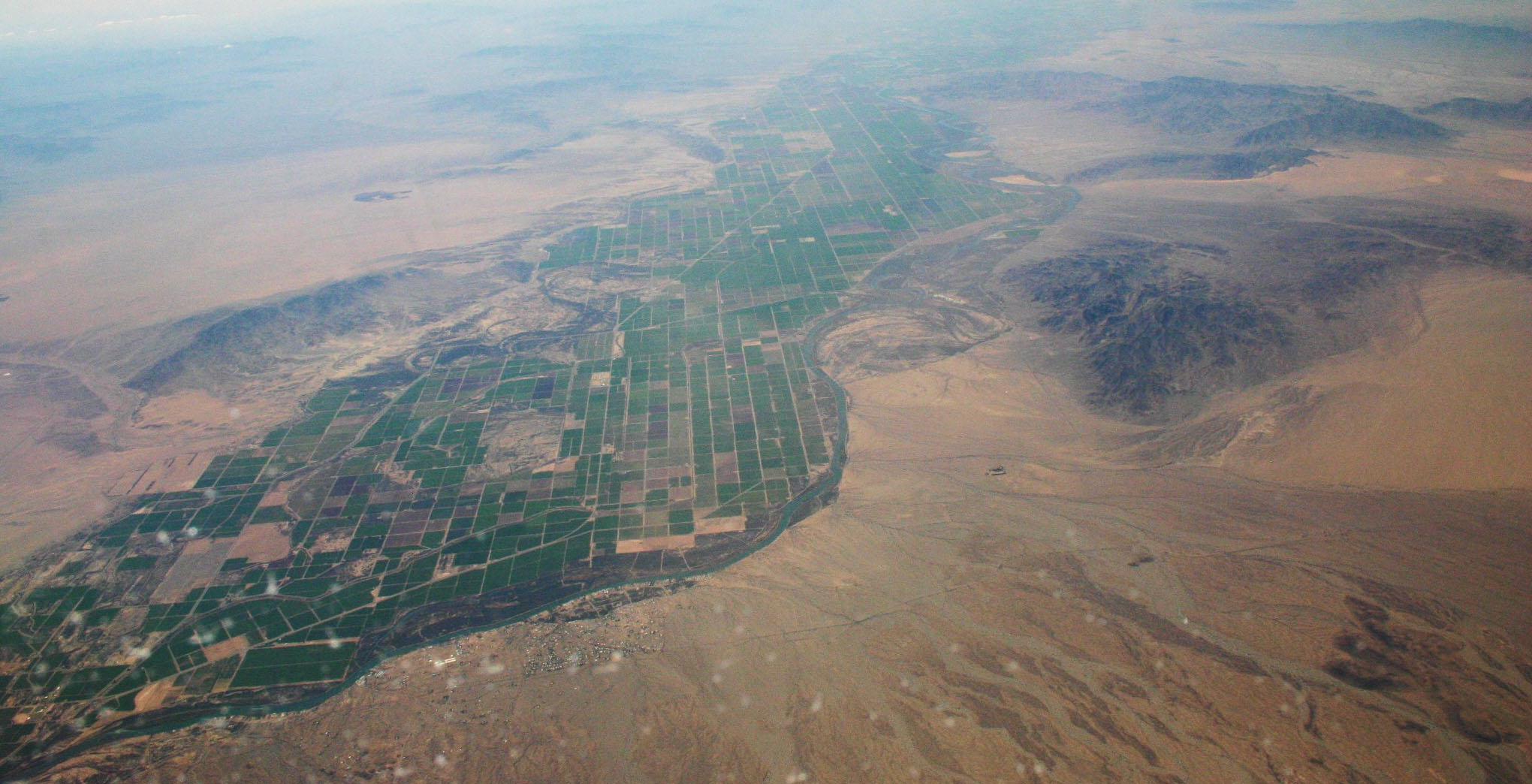 Oblique air photo of Parker Valley, AZ/CA, facing South, March 2007. Colorado River flows south toward top of photo. Riverside Mountains in Riverside County are on right. La Paz County on left. Most of photo lies within Colorado River Indian Reservation. White spots in bottom of photo are ice crystals on airplane window.